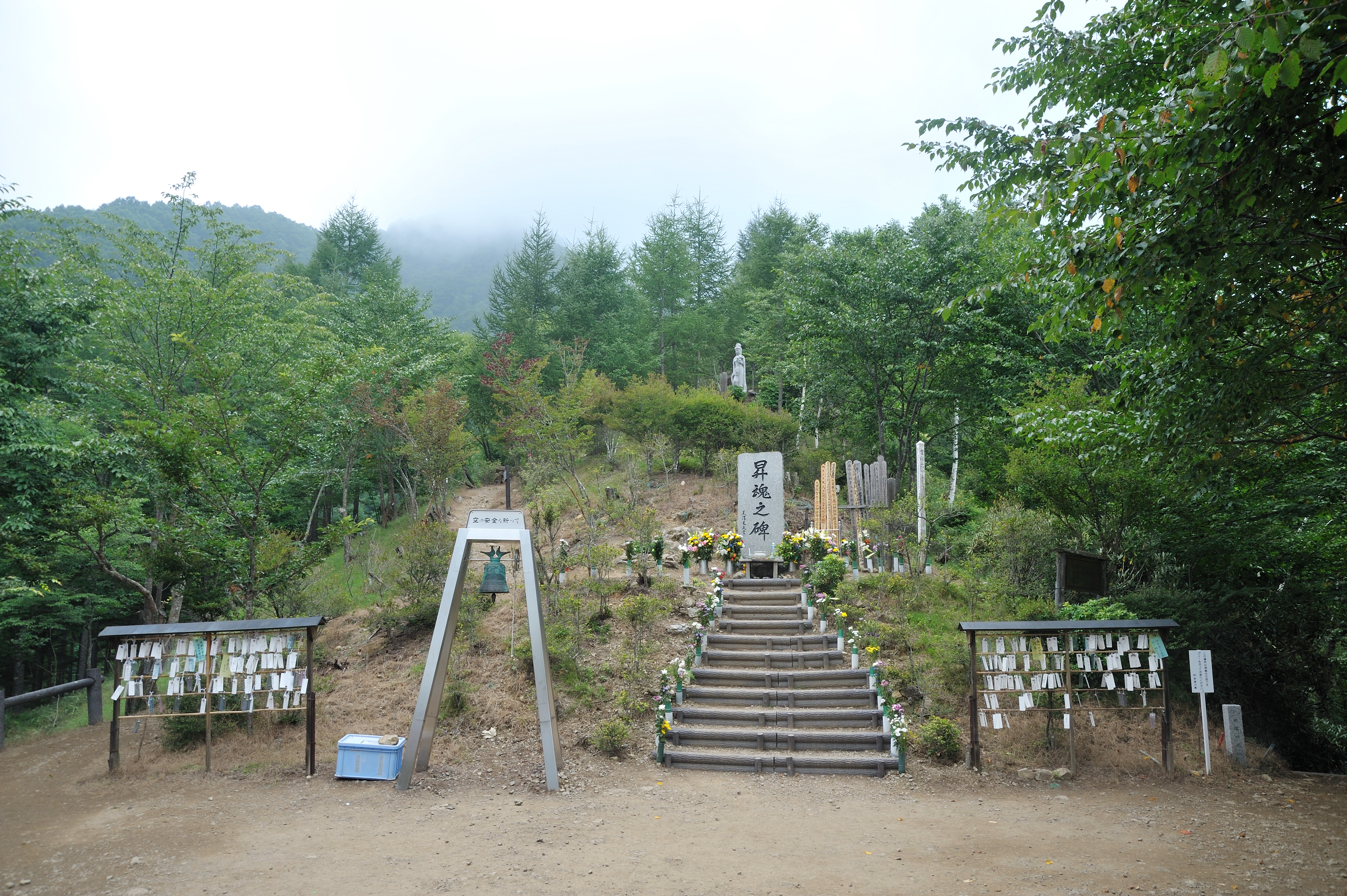 Cenotaph of the japan air flight 123 accident in osutaka ridge. (correctly ridge of mount Takamagahara) "昇魂之碑" (shōkon no hi) It means monument of the ascending souls. also In this area first impact point. location Ueno Village, Tano, Gunma, Japan.